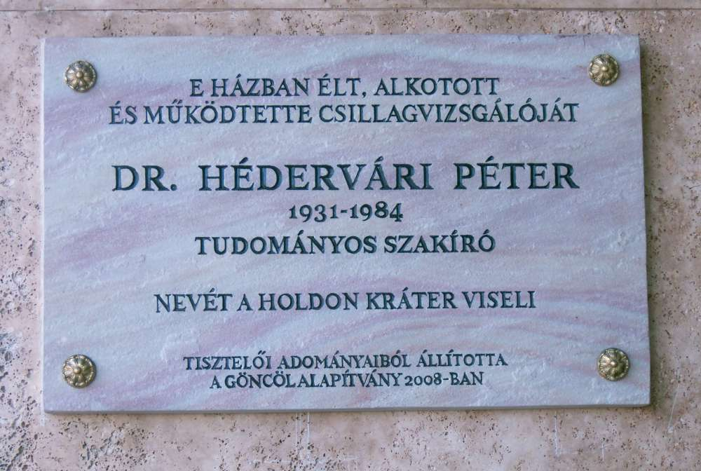 Péter Hédervári memorial tablet on the house where he lived. Budapest, 2. distr., Árpád fejedelem útja 40-41., Hungary